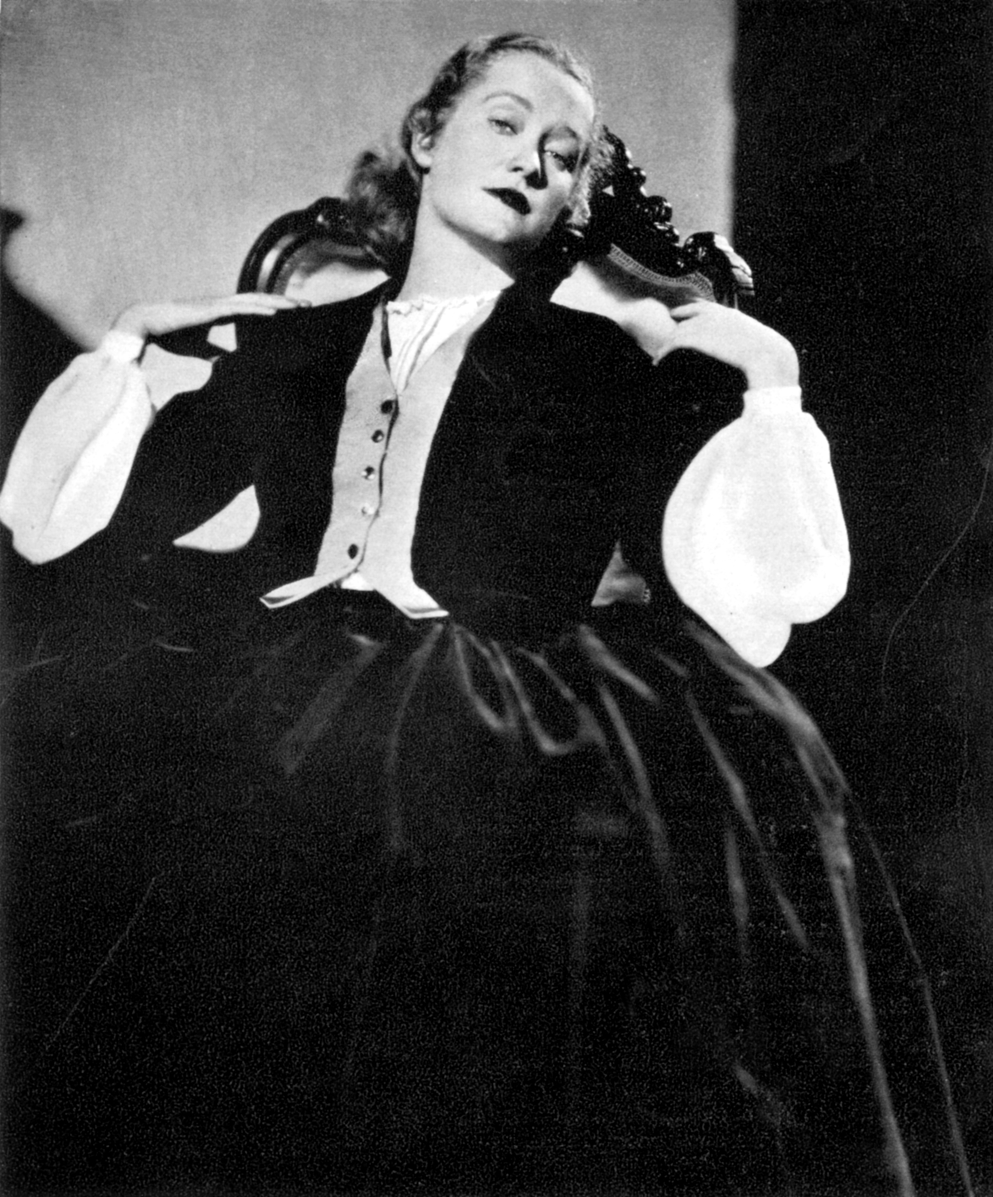 Photograph of Miriam Hopkins in the Broadway production of Jezebel Caption reads as follows: Miriam Hopkins is the devastating Jezebel of Owen Davis's play of the same name. (Her part is that which Tallulah Bankhead rehearsed until the hospital cast her for a long run.) Miss Hopkins is a fair New Orleans belle of long ago.